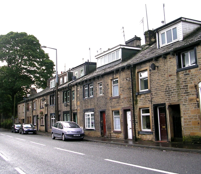 Houses - Rochdale Road, Triangle